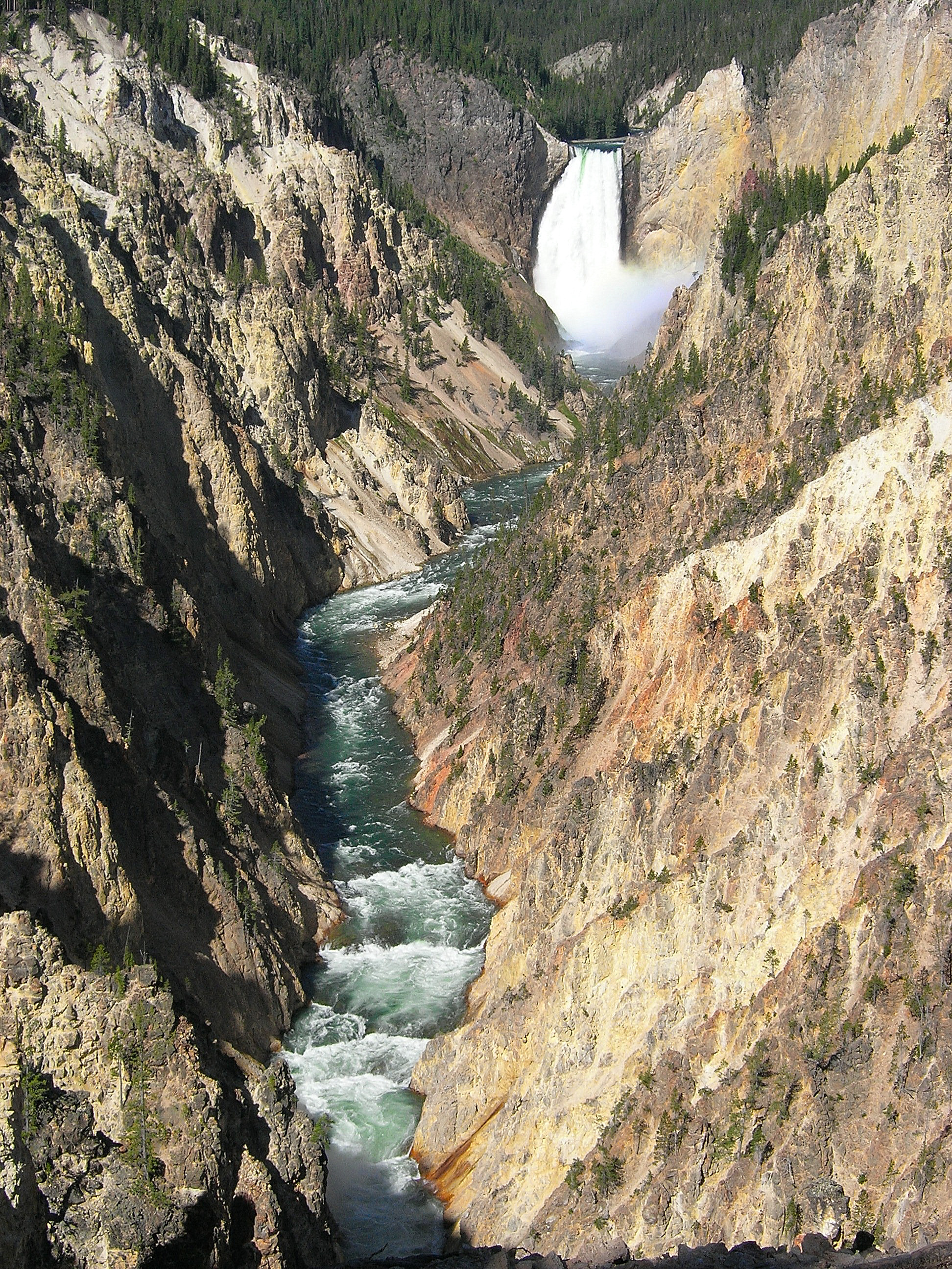 Grand Canyon of the Yellowstone (Wyoming, USA) seen from Artist Point